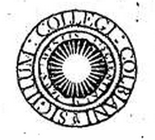 Use: College Logo first published before 1923.